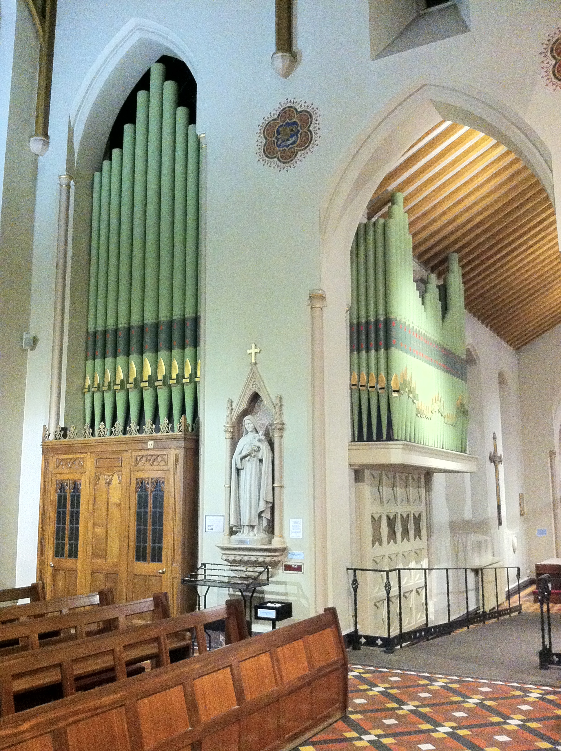 The organ in St. Barnabas Cathedral, Nottingham